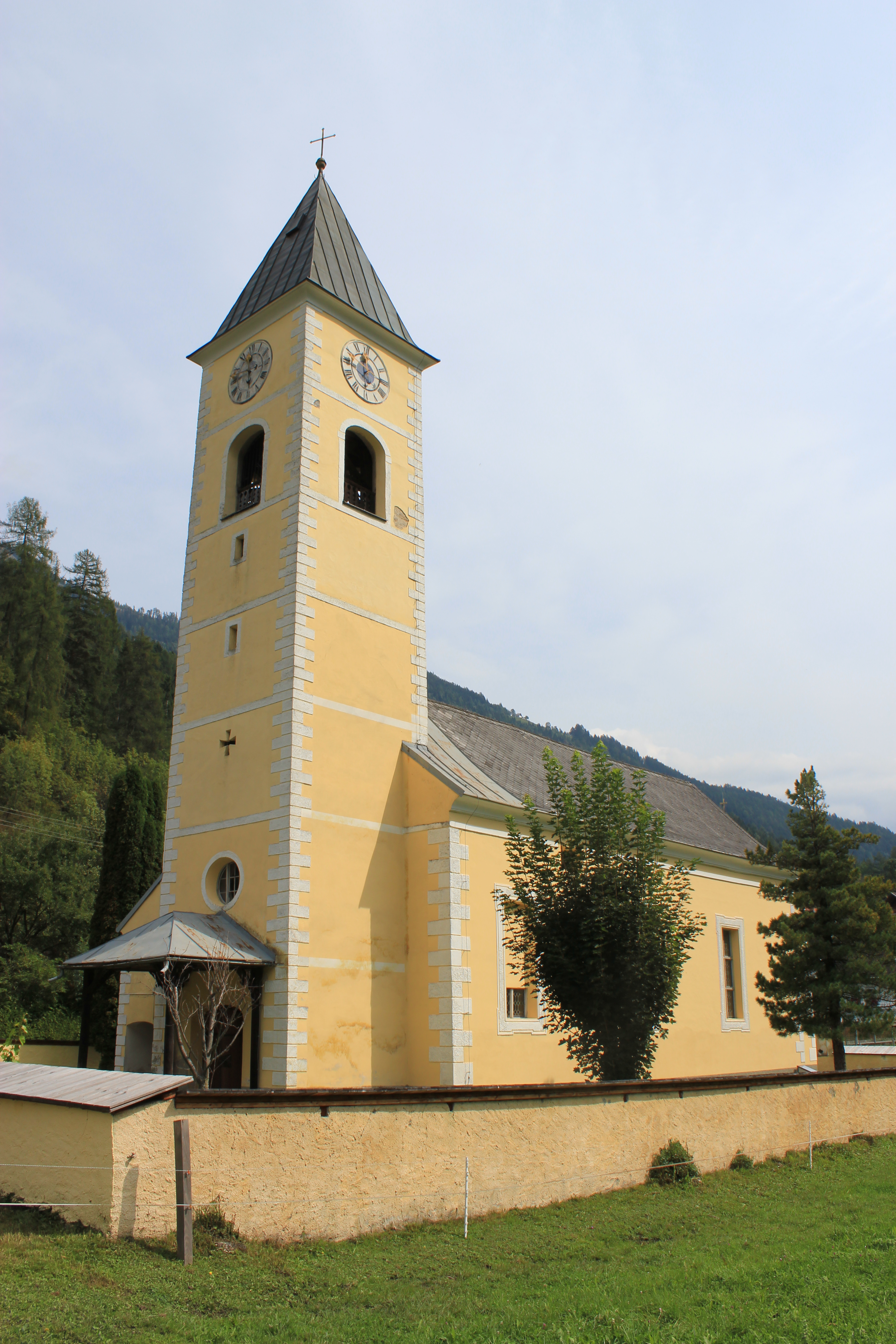 Church of Flattach